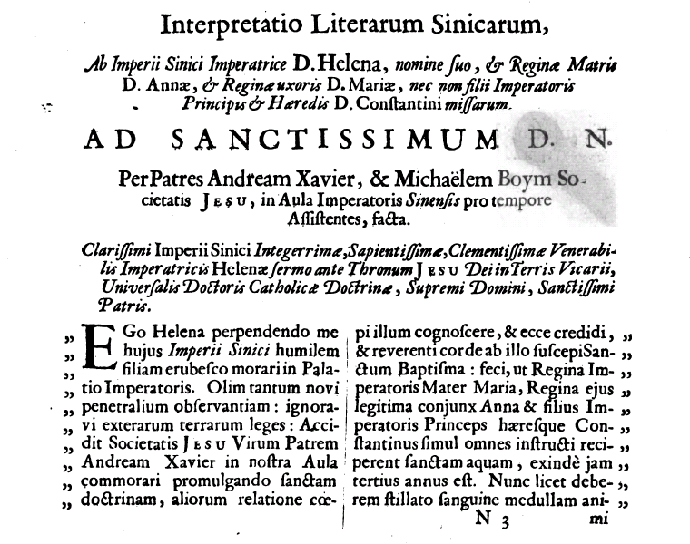 Letter from the Empress Dowager Helena Wang to the Pope, asking for help against the Manchu invaders. It is also written in the name of the Yongli Emperor's mother (Empress Dowager Maria Ma) and wife (Empress Consort Anna Wang), as well as his infant son, Crown Prince Constantine Zhu.